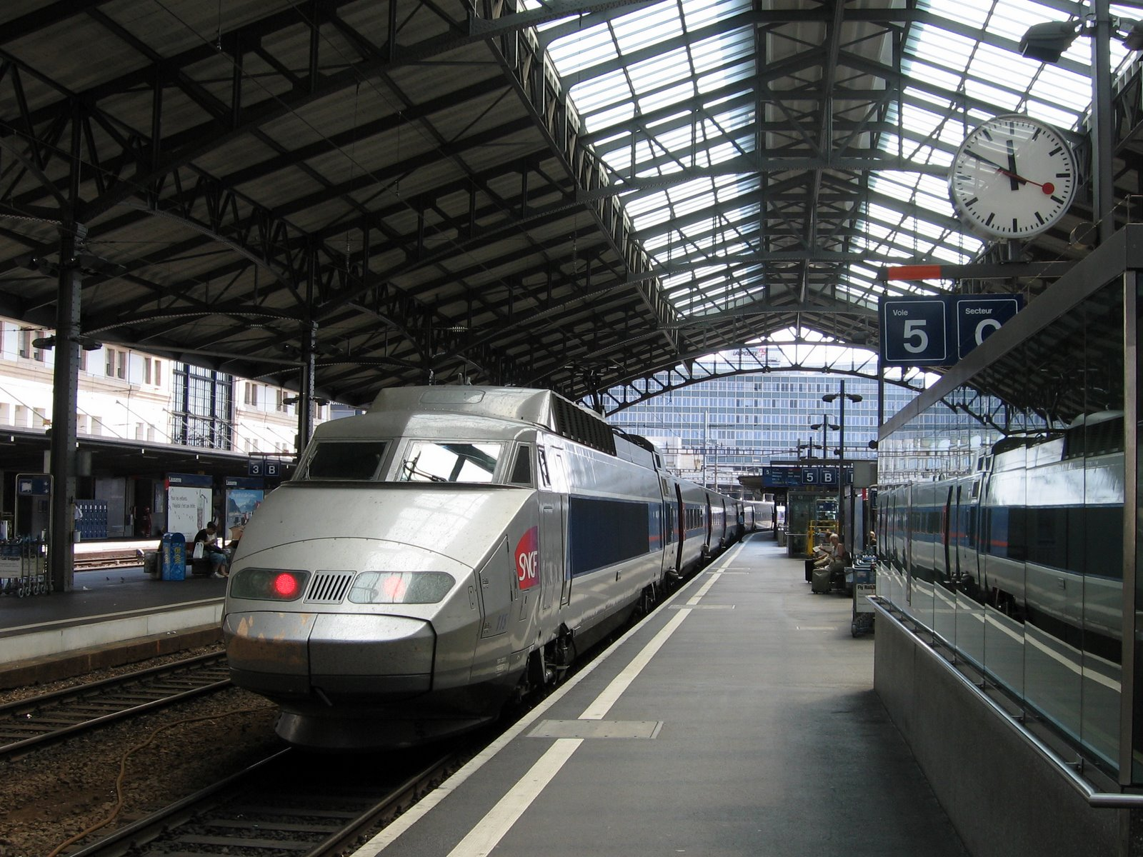 This TGV train from Paris is going as far as Brig (change there for Zermatt/Matterhorn)